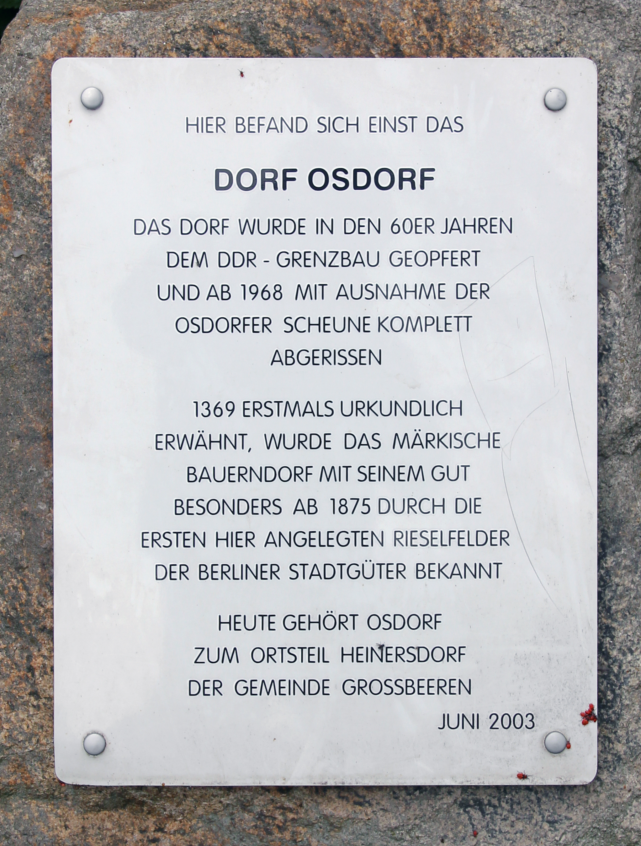 Memorial plaque, Dorf Osdorf, Osdorfer Straße 1, Großbeeren, Deutschland